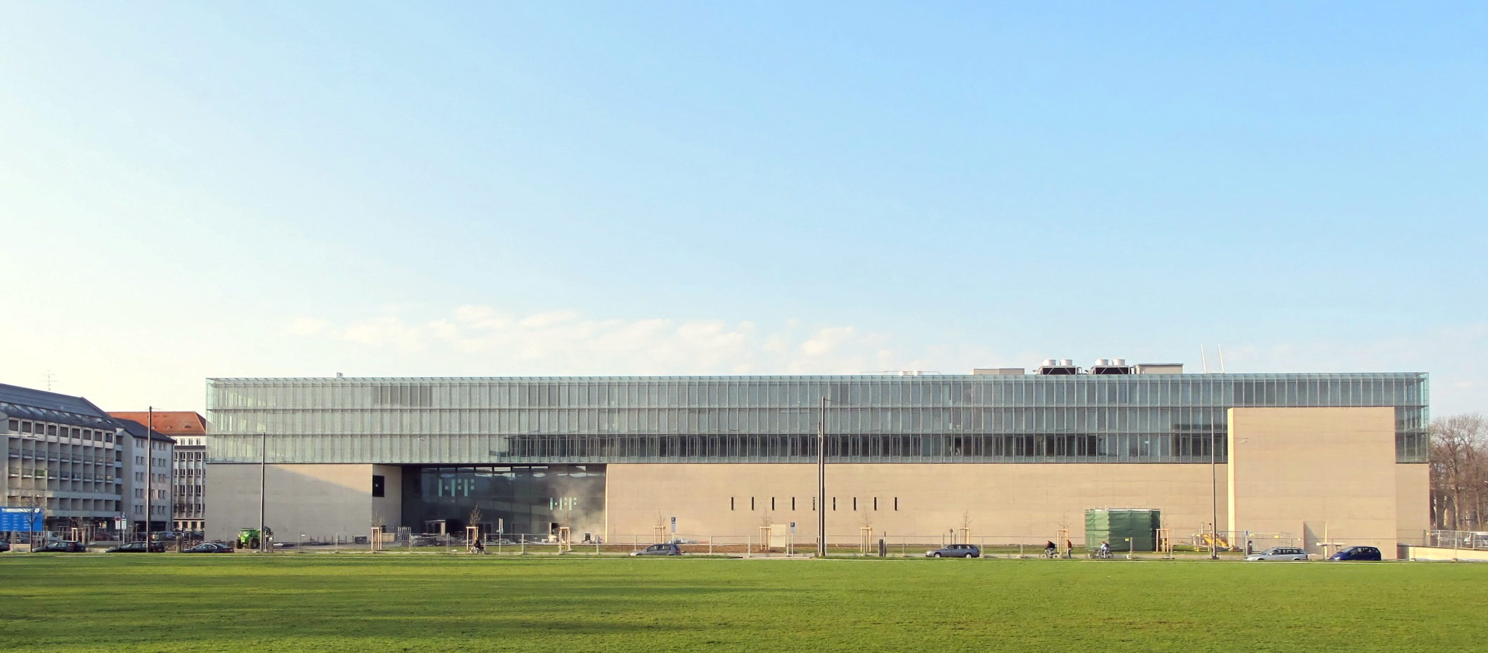 Munich, new Building of the "State Museum of Egyptian Art"